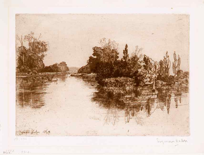 "The Island Opposite Boyle's Farm. (Upper Thames)", 9 7/8" x 7", Etching with drypoint on copper.